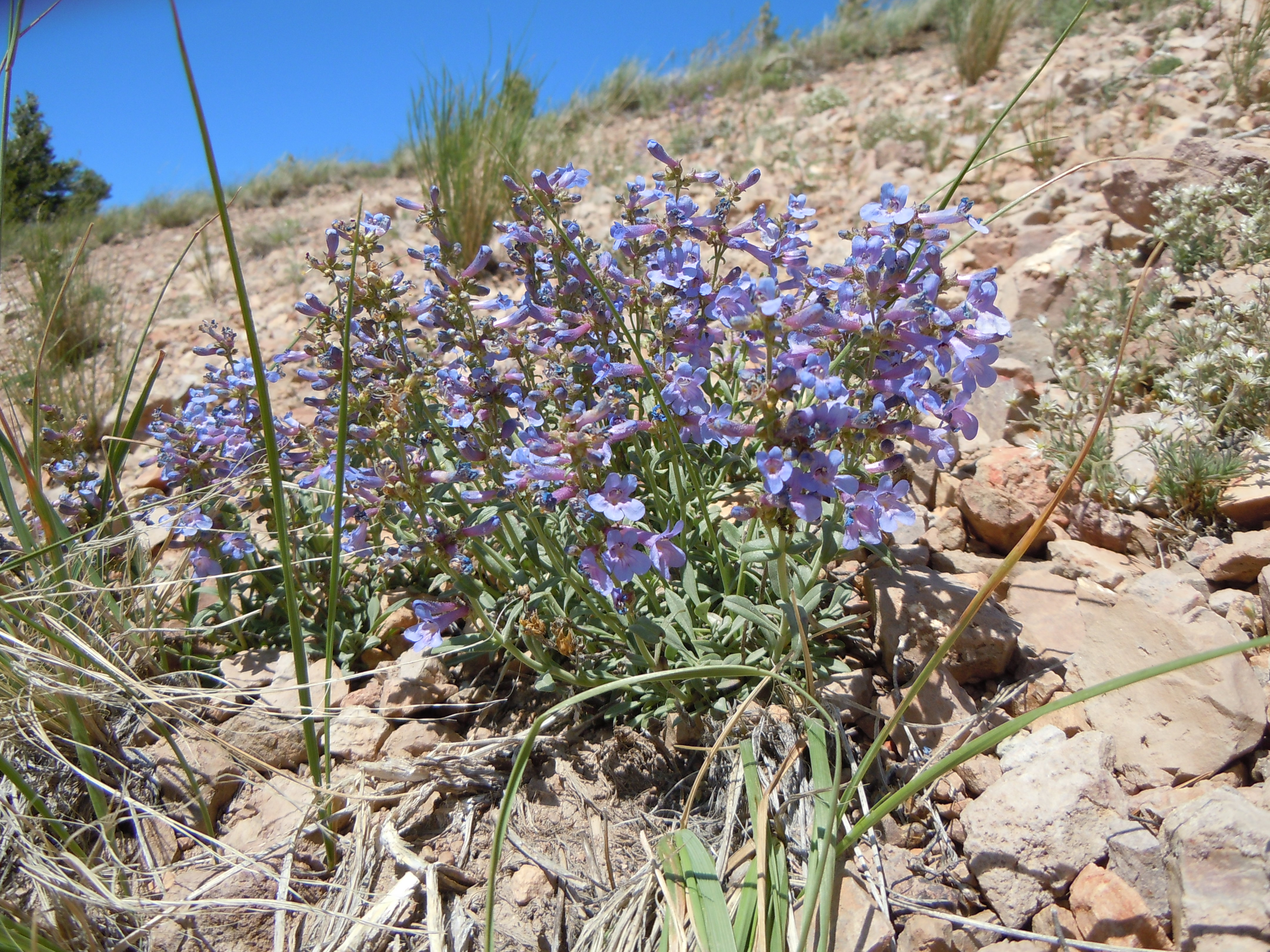 Penstemon radicosus like most Penstemon seems to prefer episodically disturbed settings such as infrequently traveled or graded roadsides, rocky slopes, and such. This species is common on talus or rocky slopes of Big Southern Butte.